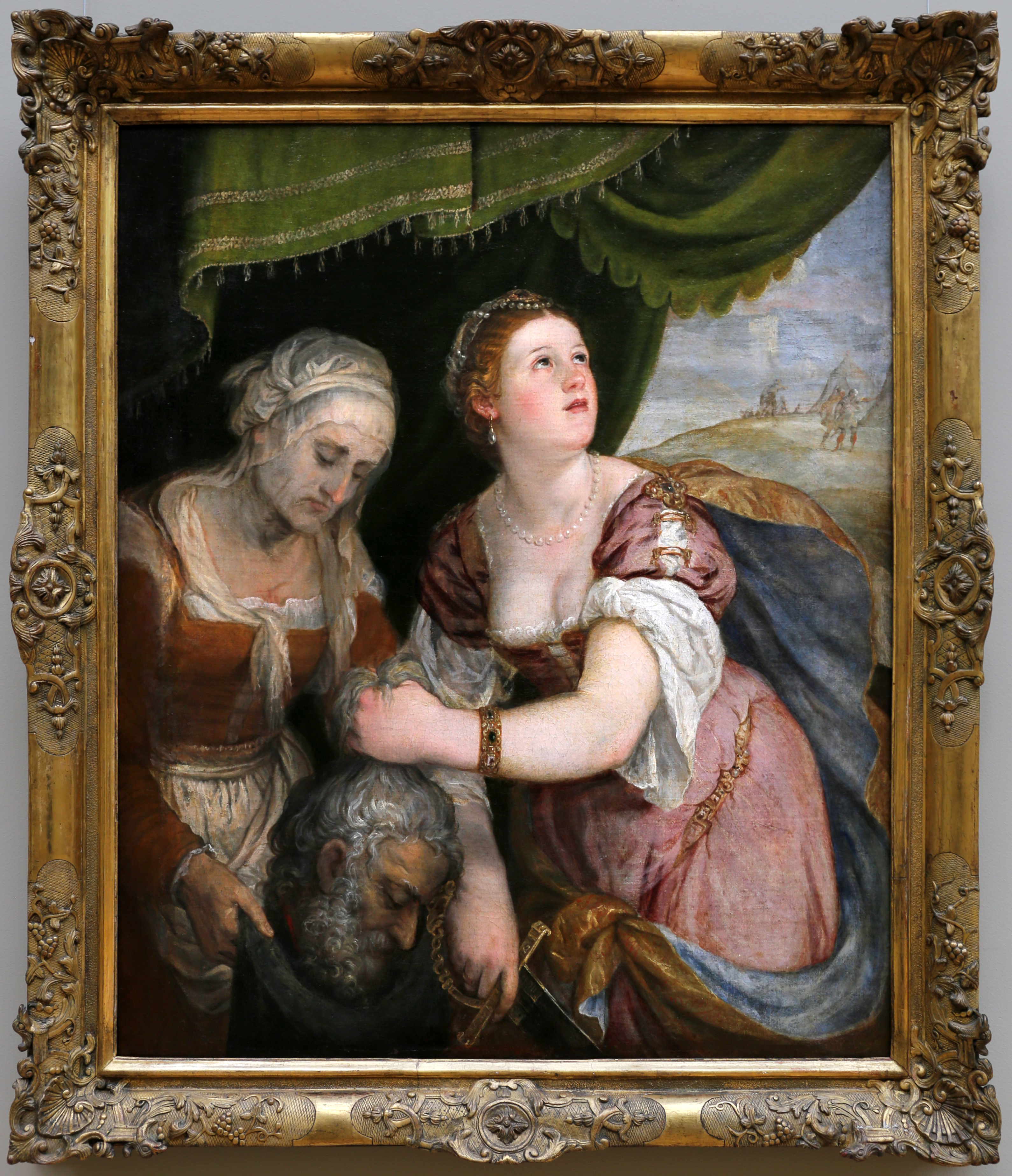 Paintings in the Palais des Beaux-Arts de Lille